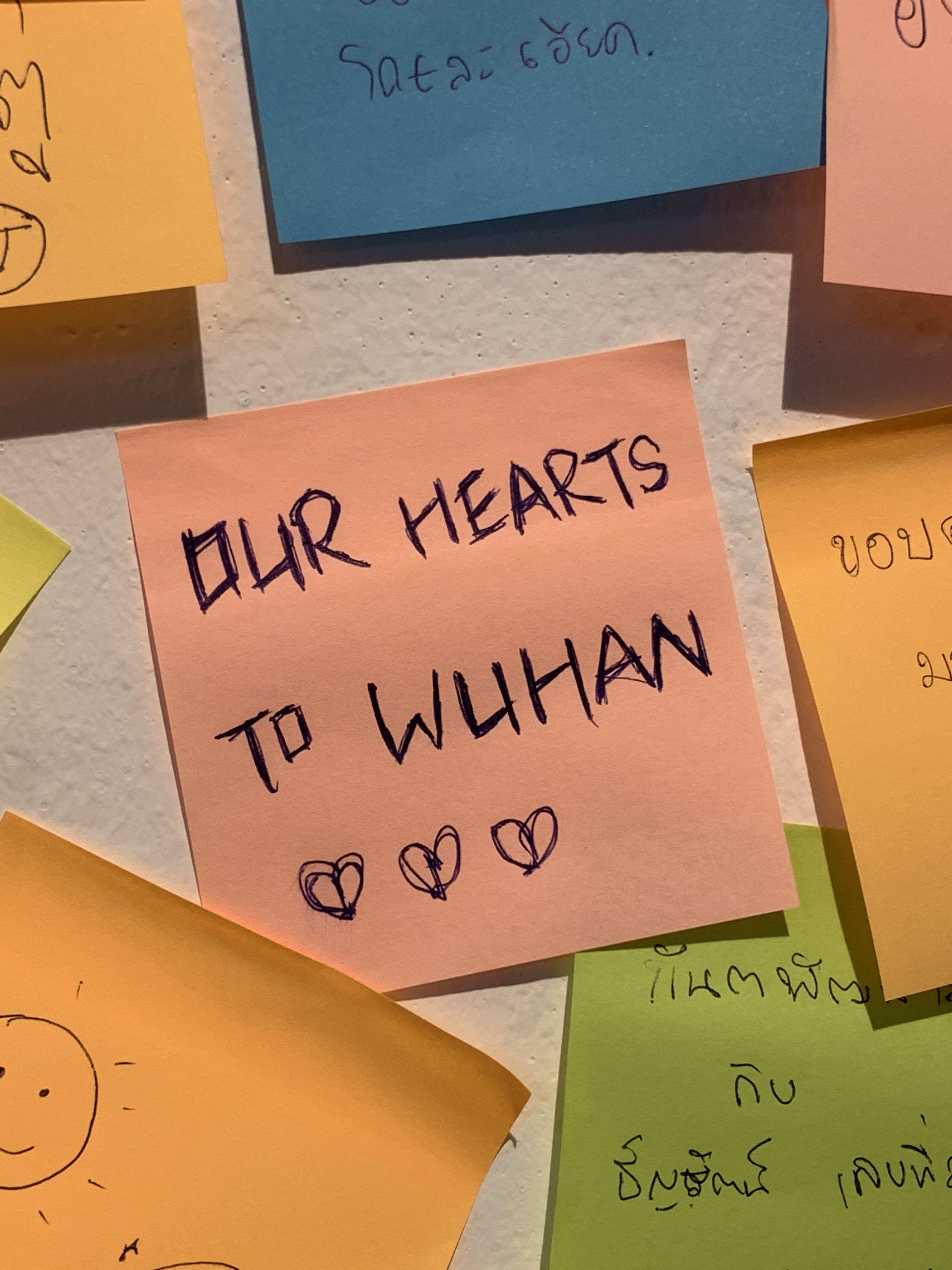 Seen at Bangkok Arts & Cultural Centre